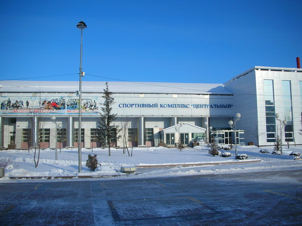 Tyumen Central Sport Complex.